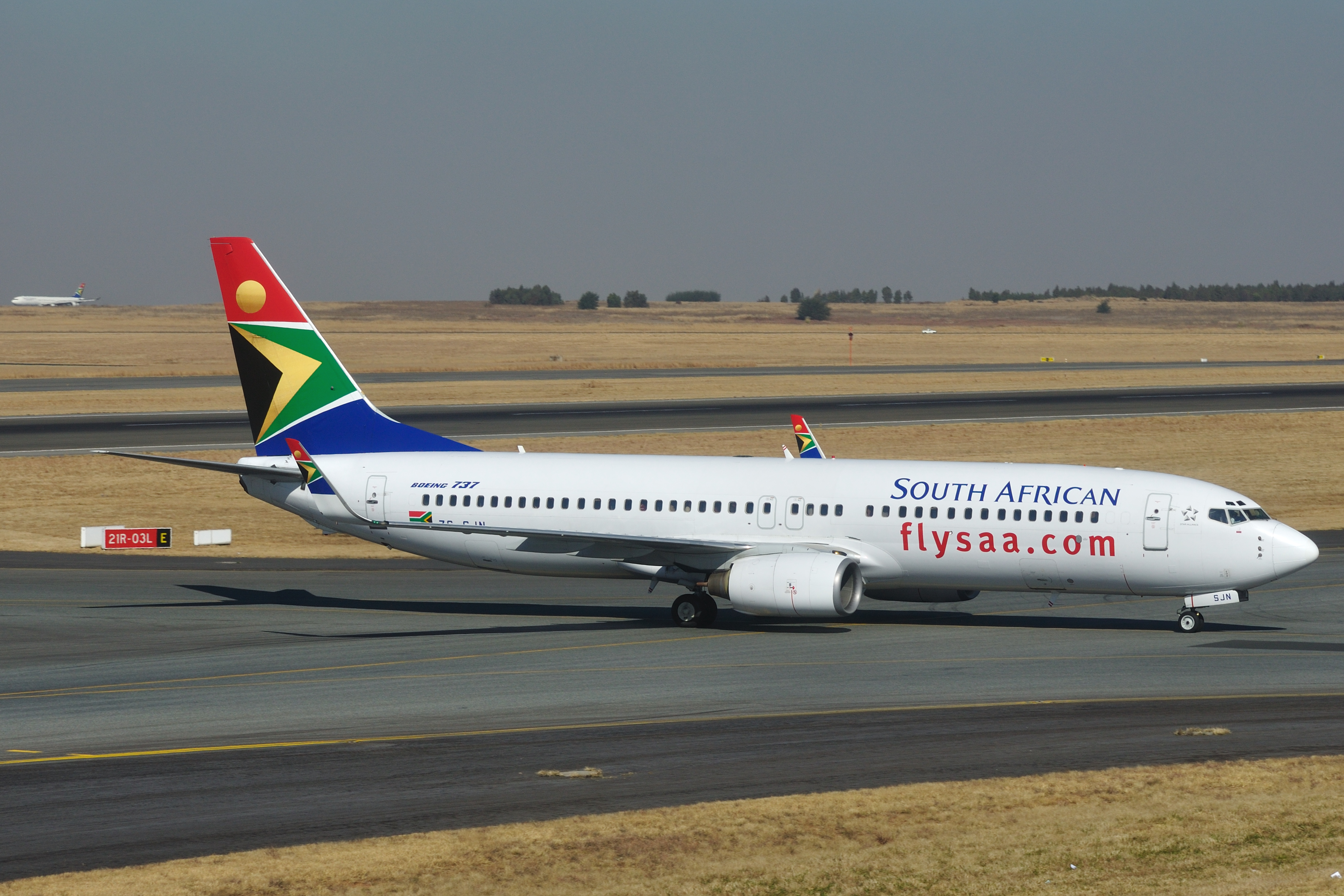 South Africa, spotting at OR Tambo International Airport